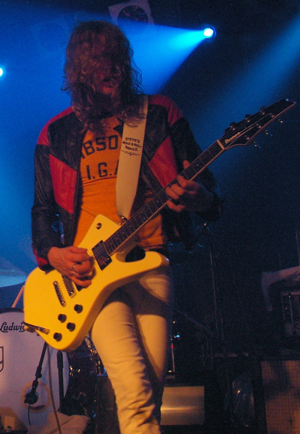 Robert 'Strings' Dahlqvist from The Hellacopters performing live